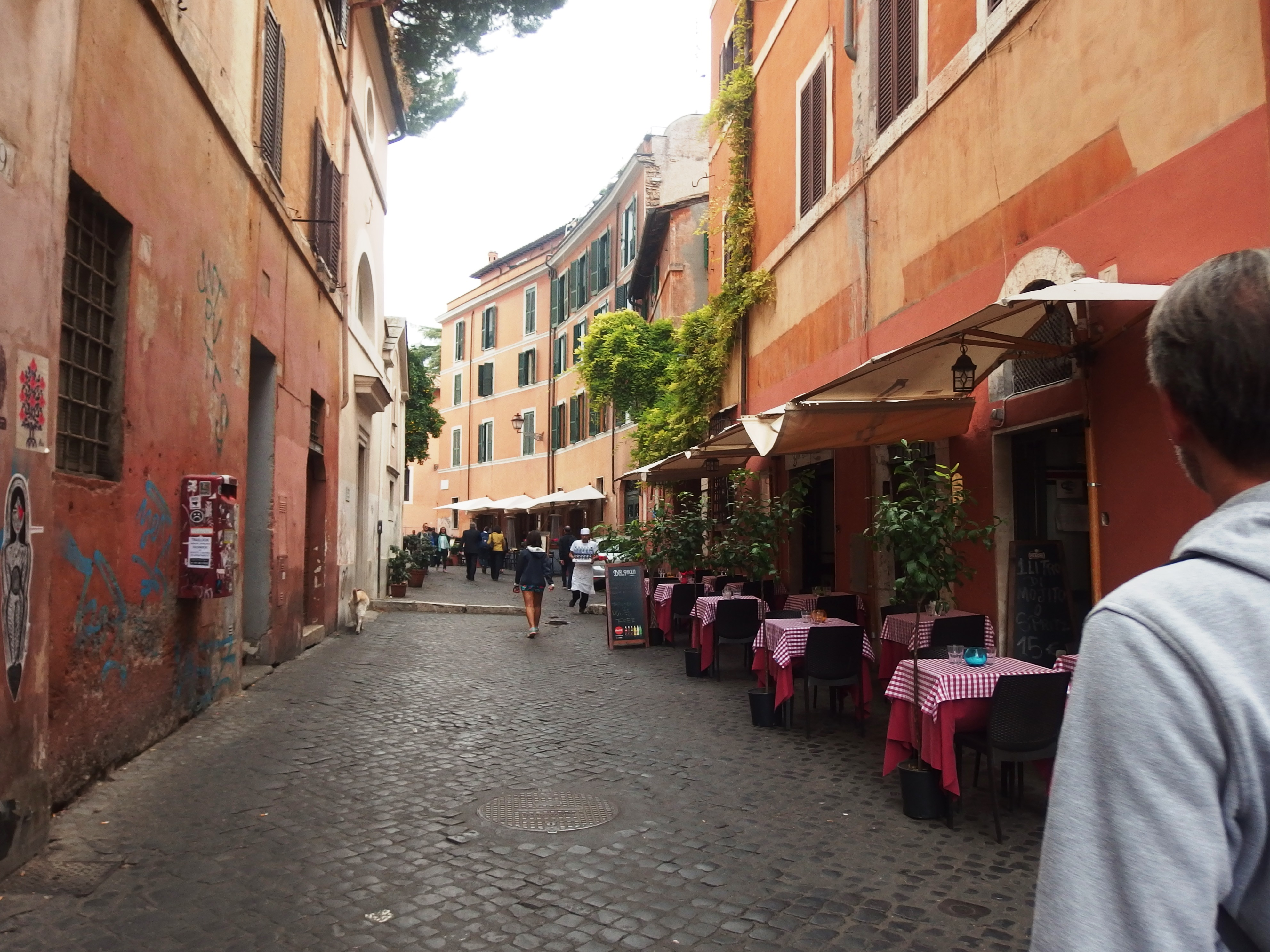 Rome, Italy.